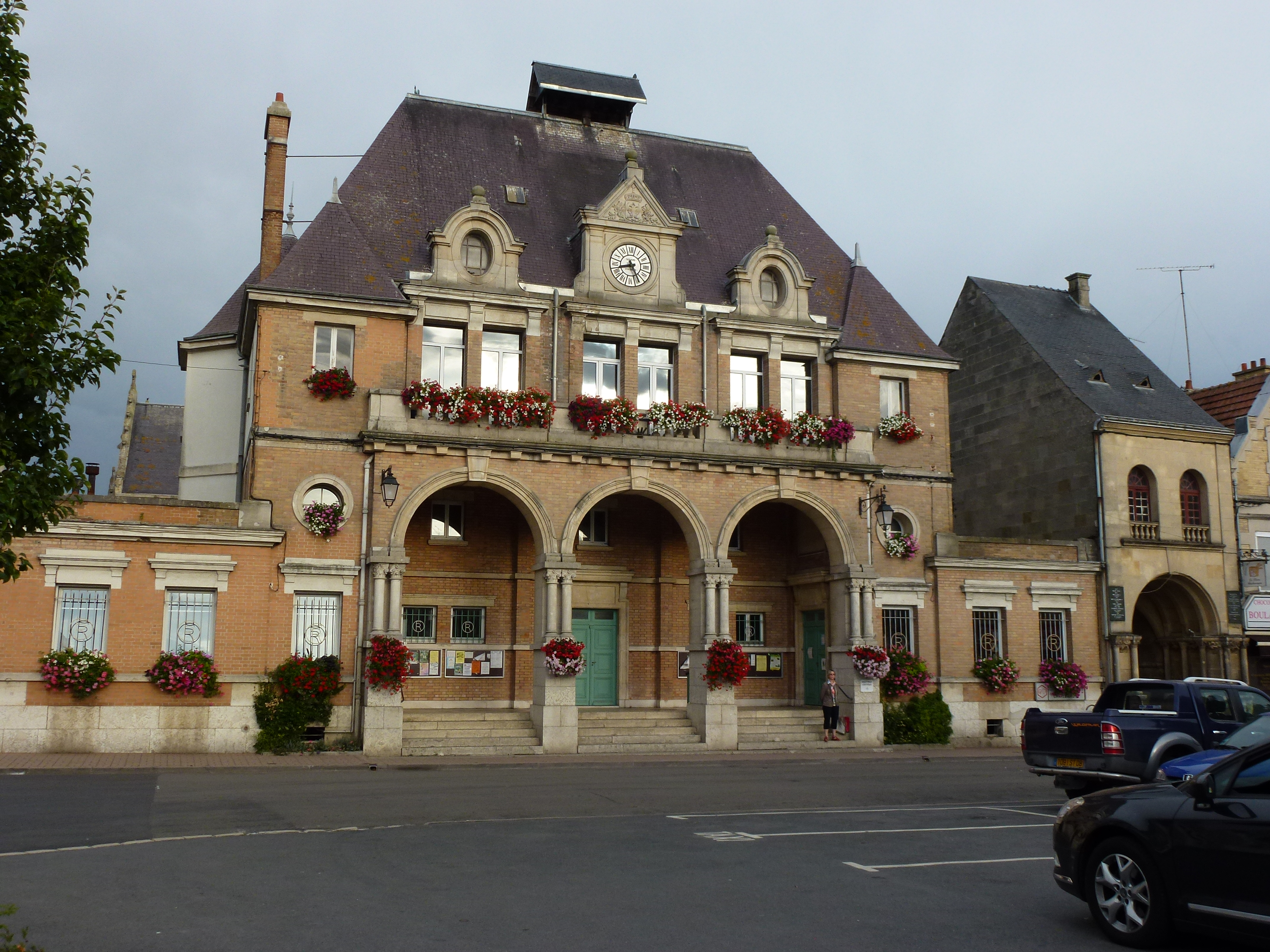 Attigny (Ardennes) mairie (gauche) et Dôme de Charlemagne (droite) This building is indexed in the Base Mérimée, a database of architectural heritage maintained by the French Ministry of Culture, under the references PA00078335 and classé .